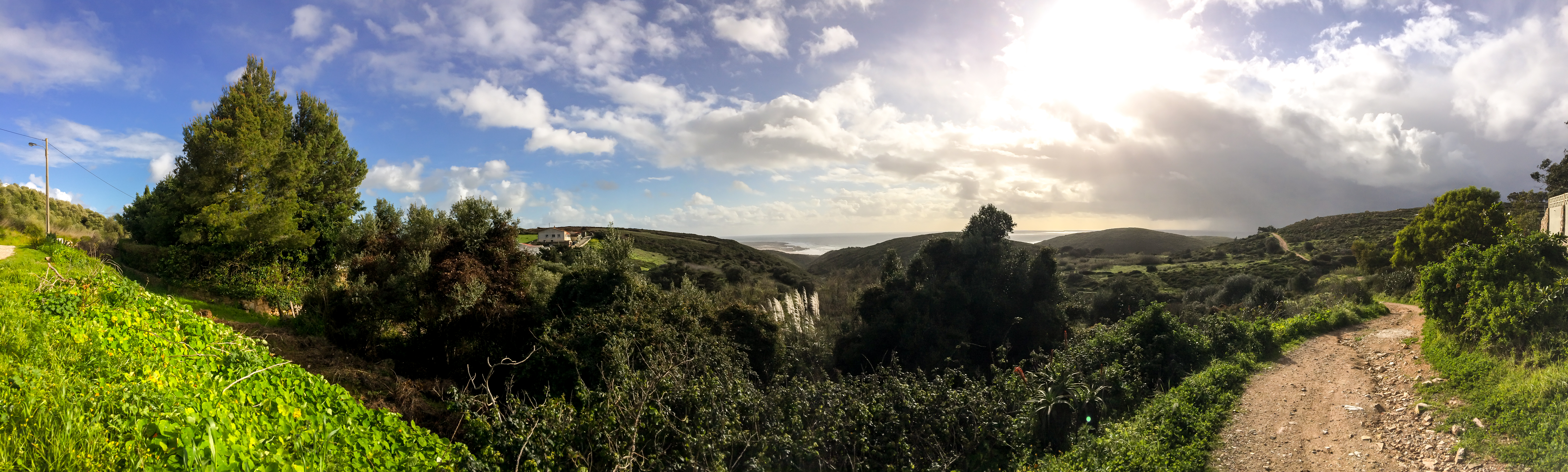 Paisagem do PNSC no concelho de Cascais.